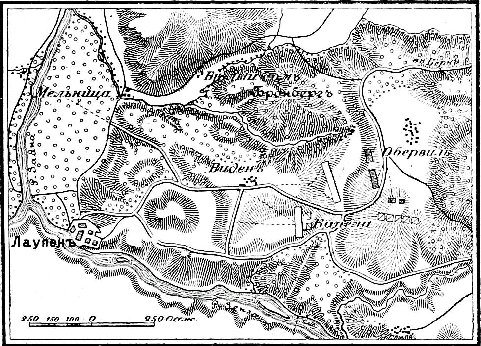 The Battle of Laupen was fought on June 21, 1339 between Bern and its allies on one side, and Freiburg together with feudal landholders from the County of Burgundy and Habsburg territories on the other. Bern was victorious, consolidating its position in the region.